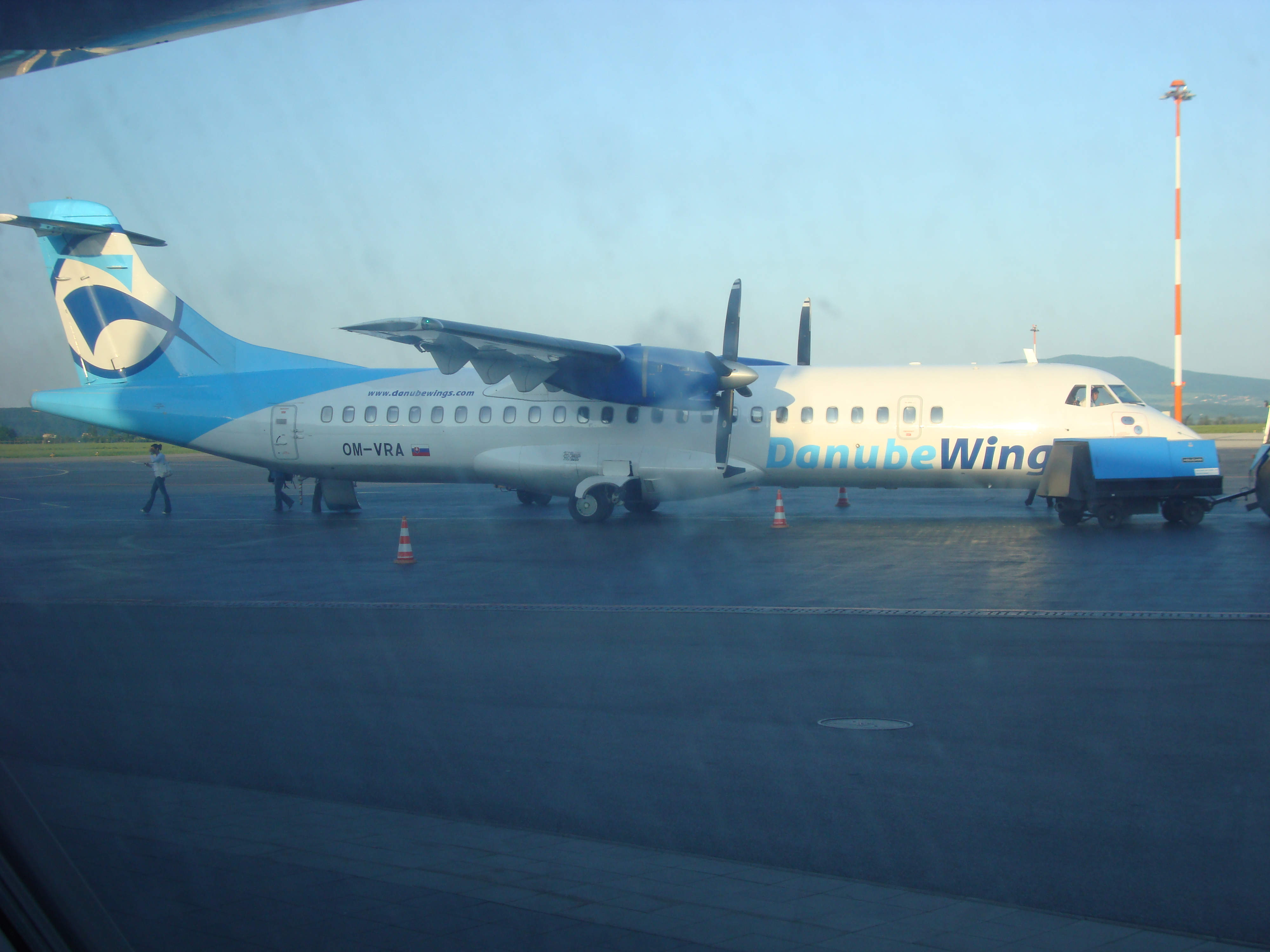 Danube Wings ATR on Košice-Barca International (KSC)